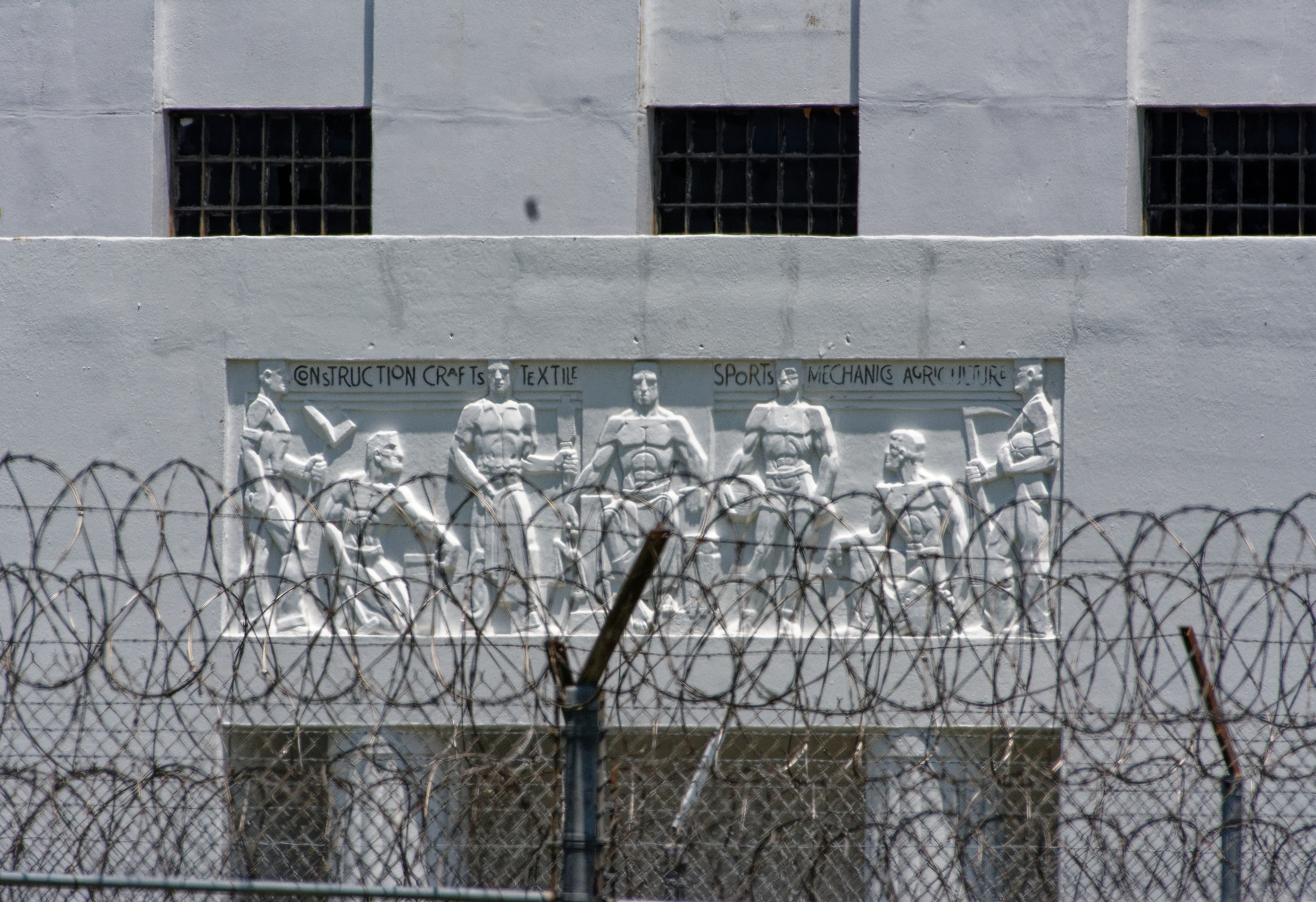 The Georgia State Prison, near Reidsville, Georgiam U.S.